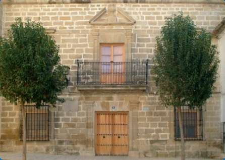 xxaxaxaxaxa